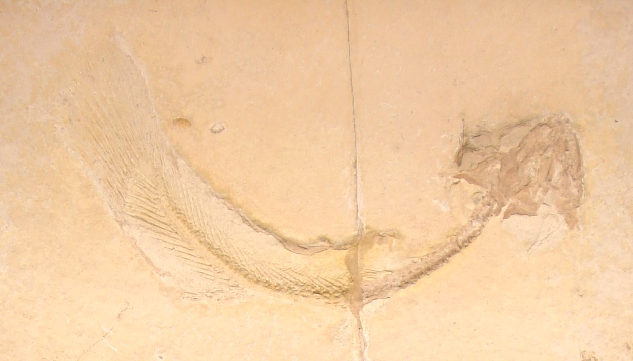 fossil of Solnhofenamia elongata (jr synonym Urocles polyspondylus